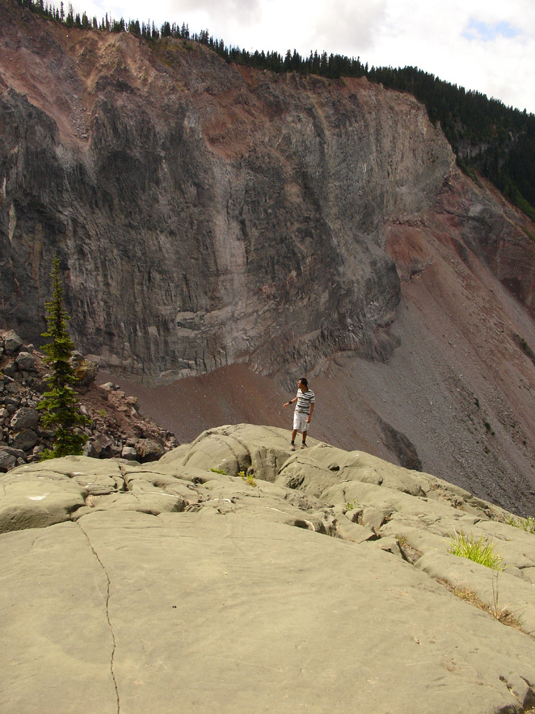 Cliff of The Barrier